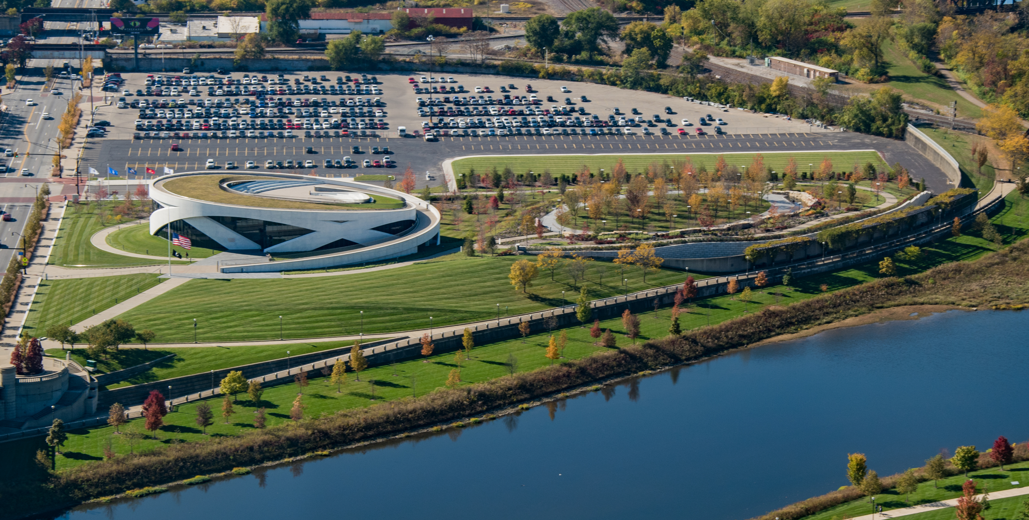 NVMM from Rhodes State.